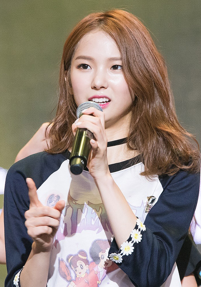 160903 CLC Choi Yujin at the MTV Asia Music Stage